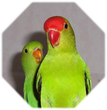 Agapornis taranta (female and male)